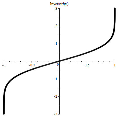 Inverse error function